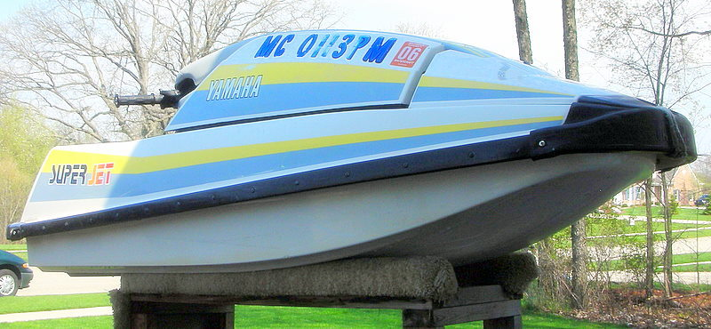 1991 Yamaha Superjet. Michigan. 2006. Photo by Joel Novick.